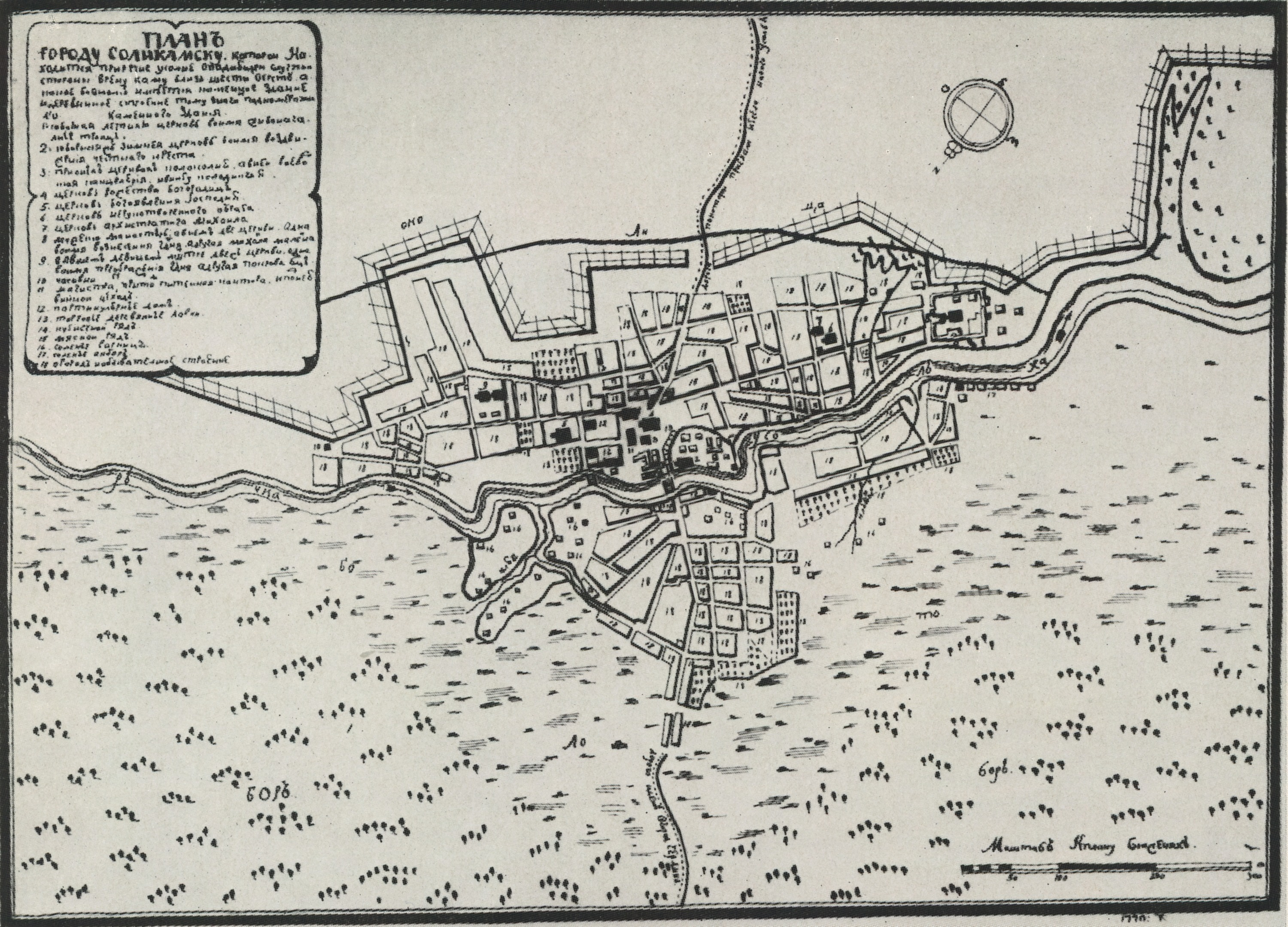 Solikamsk plan, 1740